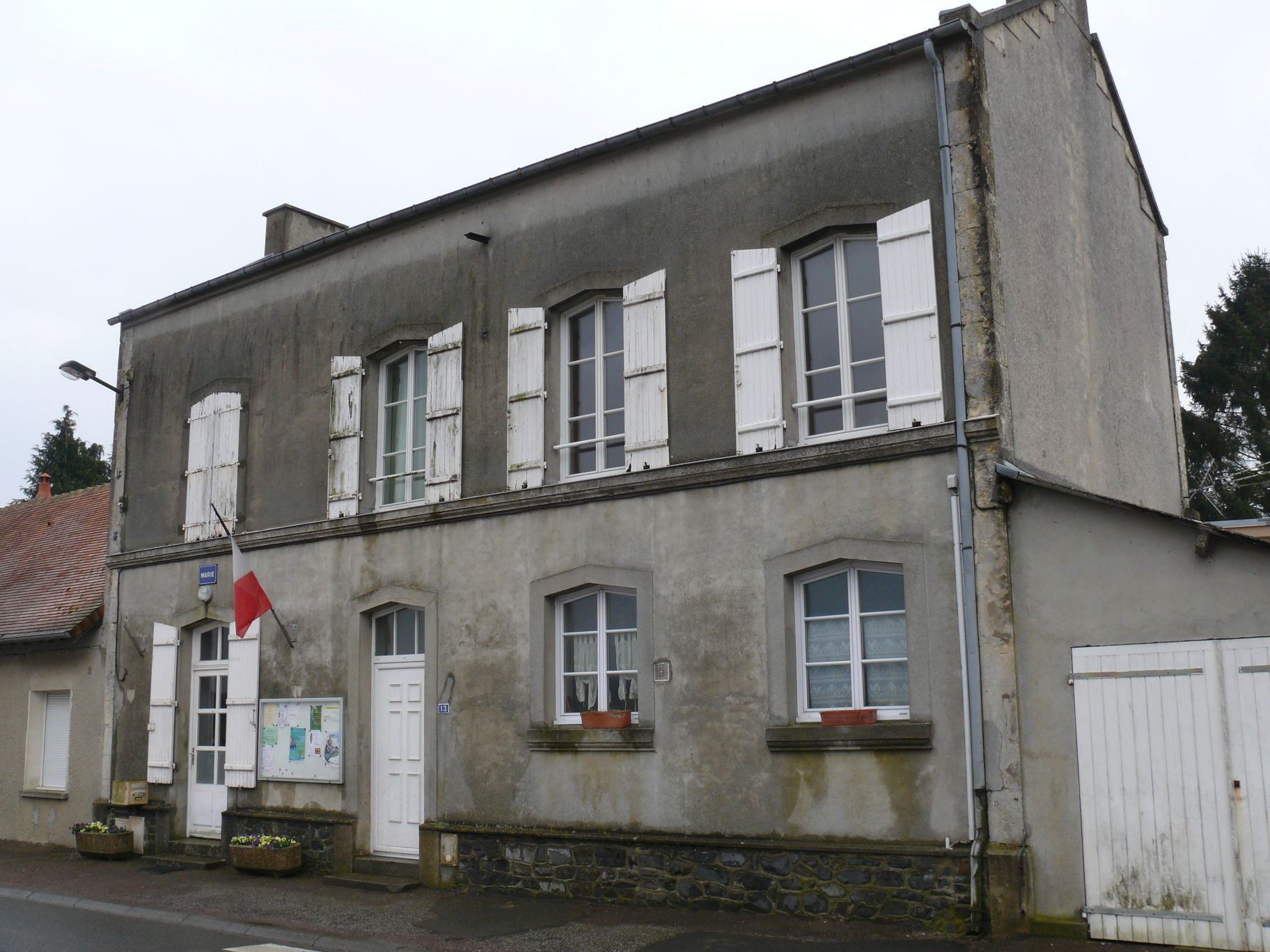 The town hall of Fresney-le-Vieux (Calvados, Basse-Normandie, France).